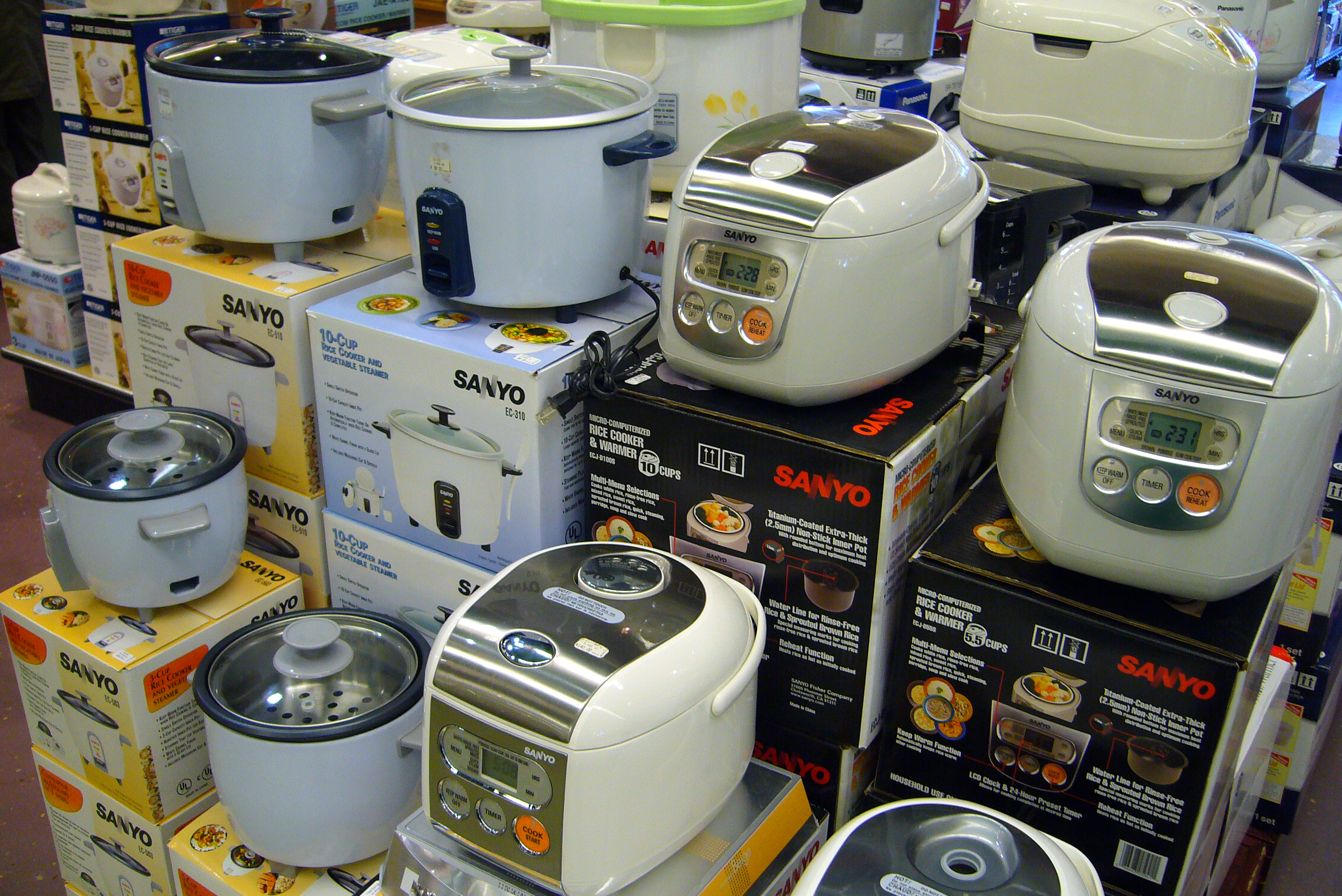 Different types of rice cookers offered for sale